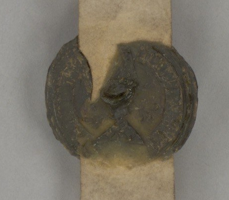 Nationaal Archief, Den Haag, Kloosters Delfland: Maria Magdalena in Bethanië te 's-Gravenzande, nummer toegang 3.18.16, inventarisnummer 34.3